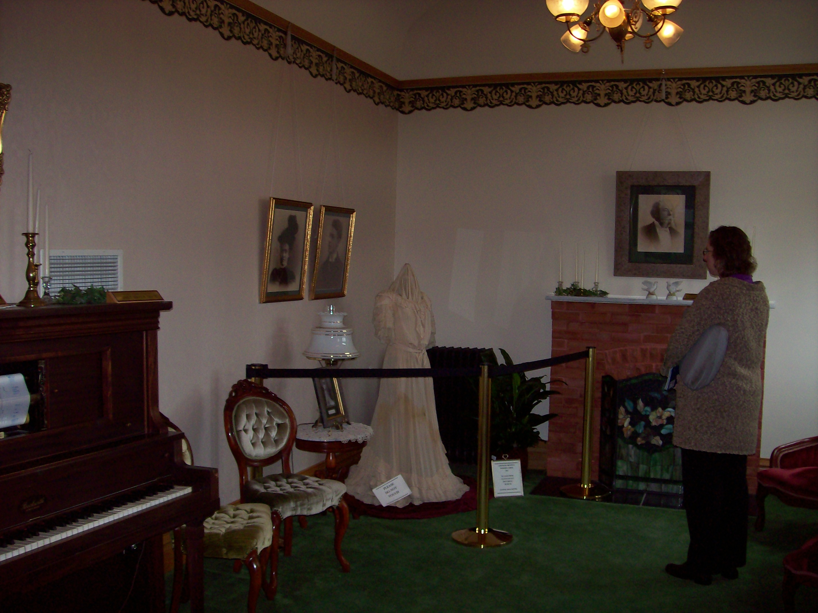 The "Ladies Lounge" area of the Brown Grand Theatre in Concordia. Photo by Paul McDoanld, September 2007. Released to Public Domain.